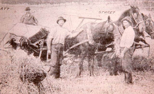 Sepia photograph, 7 x 11cm. A horsedrawn tram service ran from 1888-1914 between Sandringham and Cheltenham Station. This photograph shows oats being grown for horses in Pellatt Street, Beaumaris, on land owned by the Beaumaris Tramway Company.